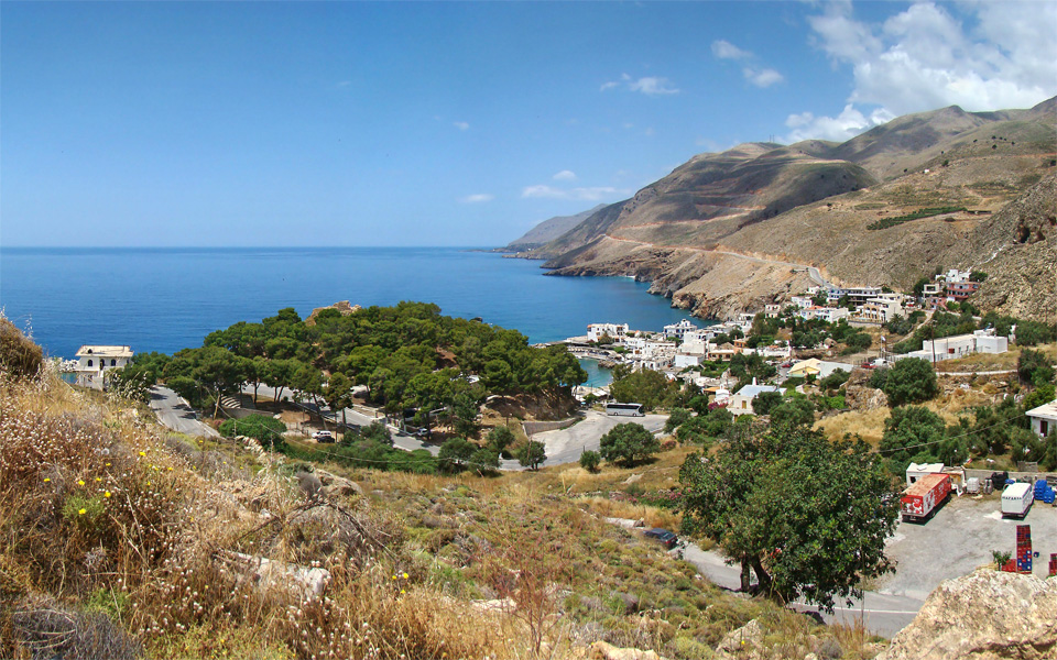 Chora Sfakion, Crete, Greece.